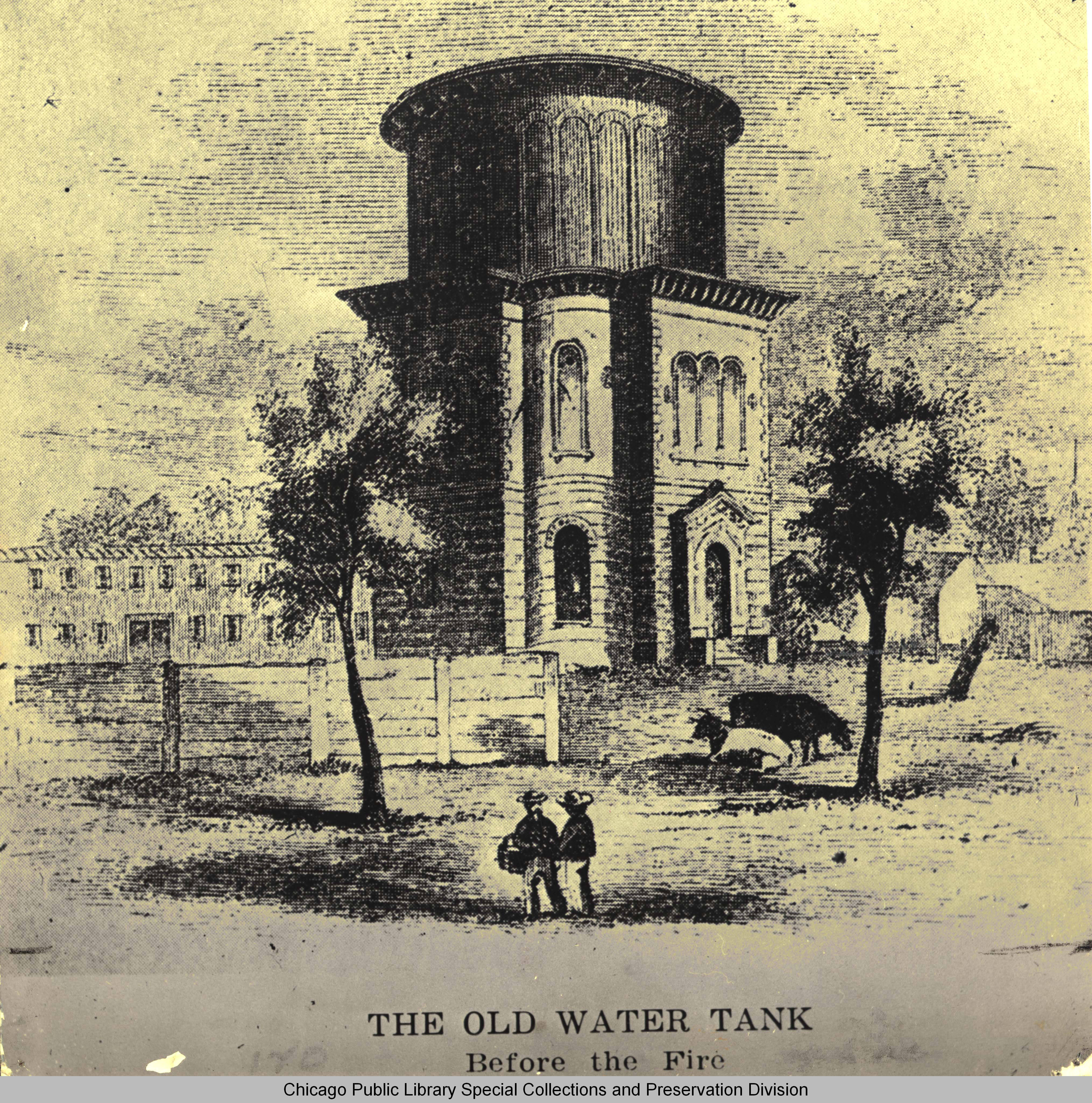 Old Water Tank, exterior view, ca. 1870. On January 1, 1873, the Chicago Public Library formally opened the doors to its first home in this water tank, which stood on a lot at the southeast corner of LaSalle and Adams Streets. Black and white reproduction of an engraving, 21 x 26 cm.